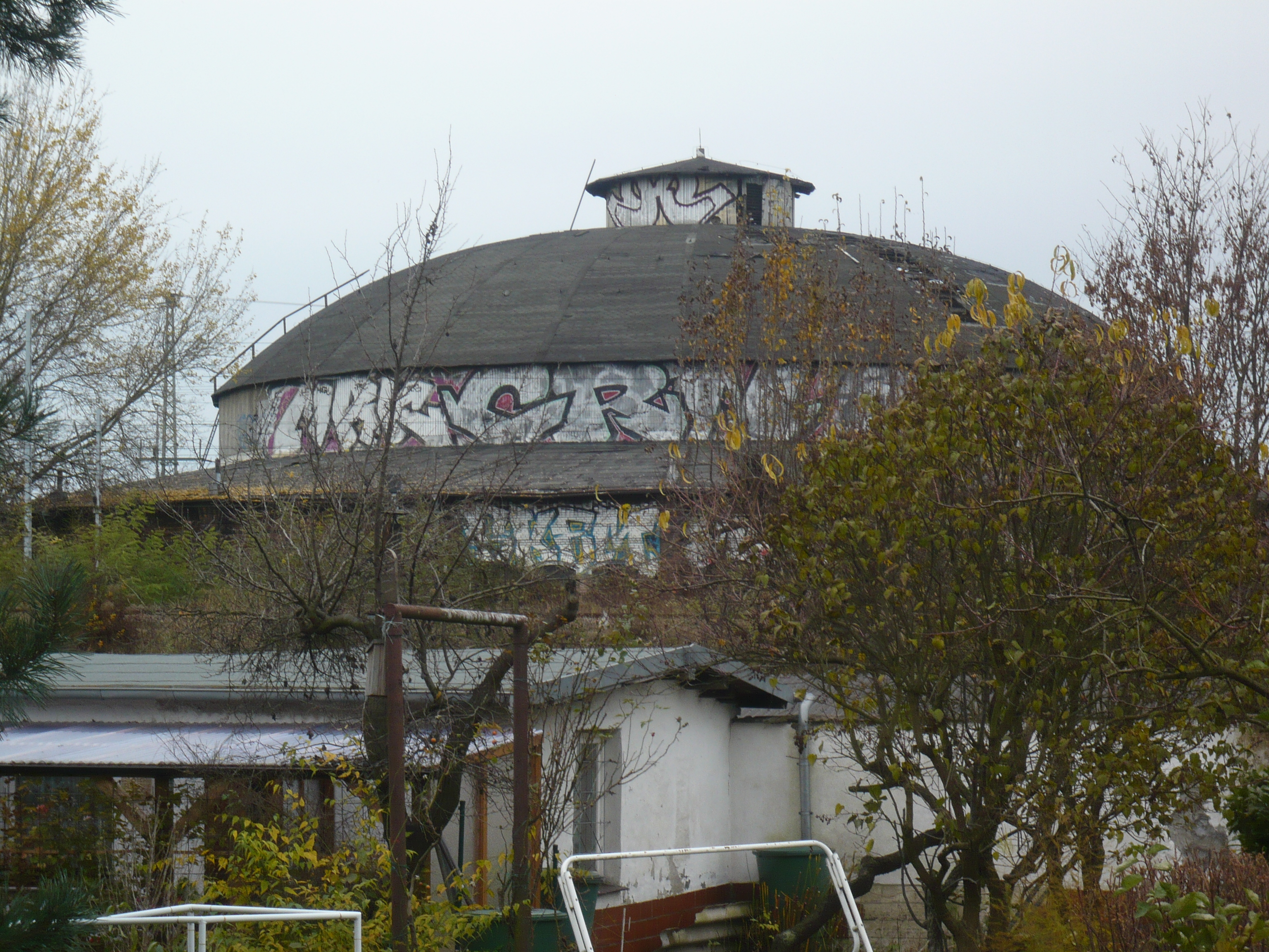 Roundhouse yard, Rummelsburg, Berlin, Germany